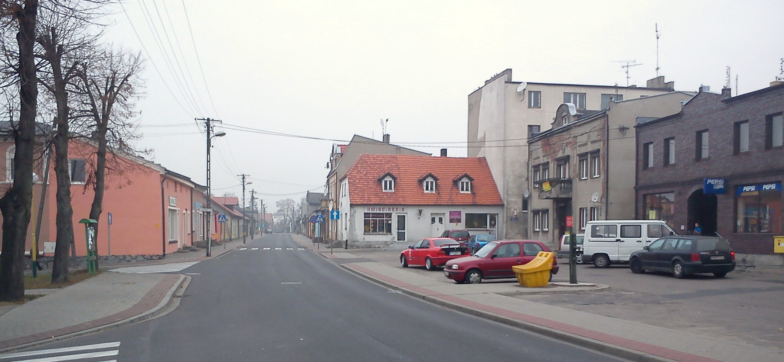 Kiszkowo, center of village.